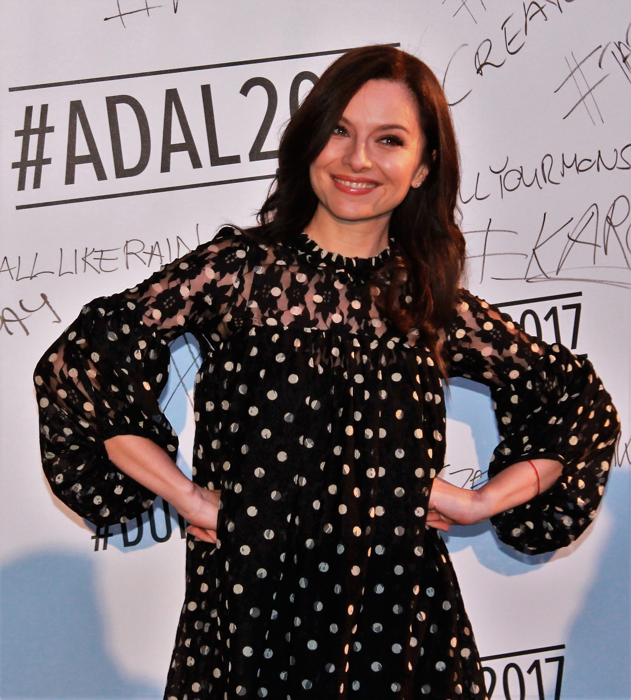 Zséda, one of the jurors of A Dal 2017